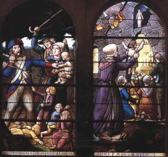 Right part of the stained glass window in the Saint-Pierre church of Les-Lucs-sur-Boulogne representing the massacre of the civilian population of the village of Petit-Luc by the french republican army on 28 february 1794 during the war in Vendée